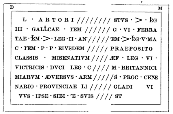 Drawing of the Lucius Artorius Castus inscription from Podstrana, as was read (with some minor errors) by professor Fr. Bulic (Conservator of Ancient Monuments in Split, Croatia) in 1887.